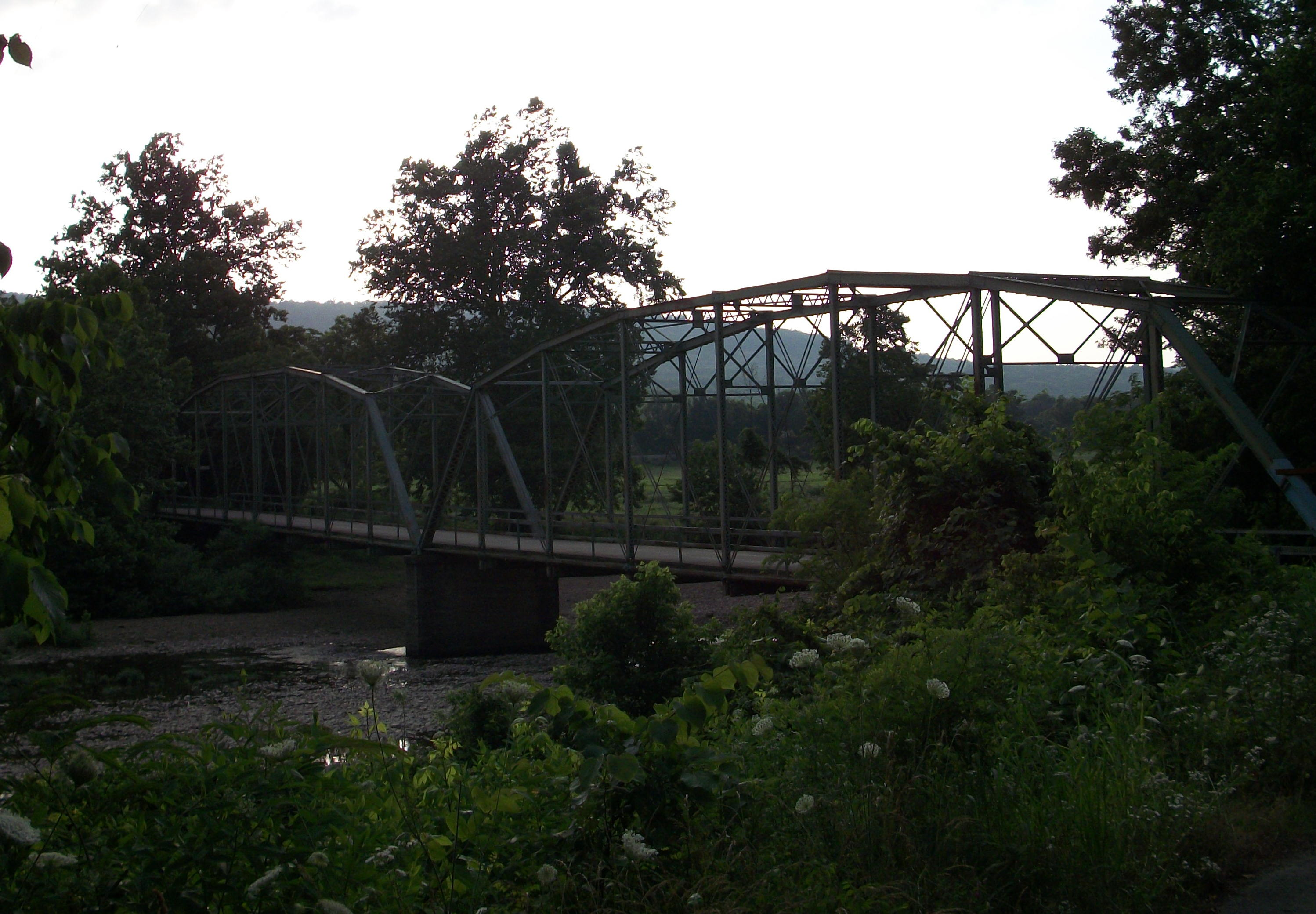 The Woolsey Bridge in Washington County, Arkansas. This image is taken facing north.